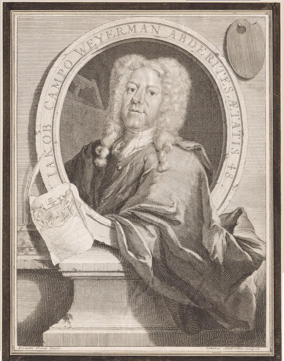 Portrait of Dutch painter and writer Jacob Campo Weyerman by Jacobus Houbraken